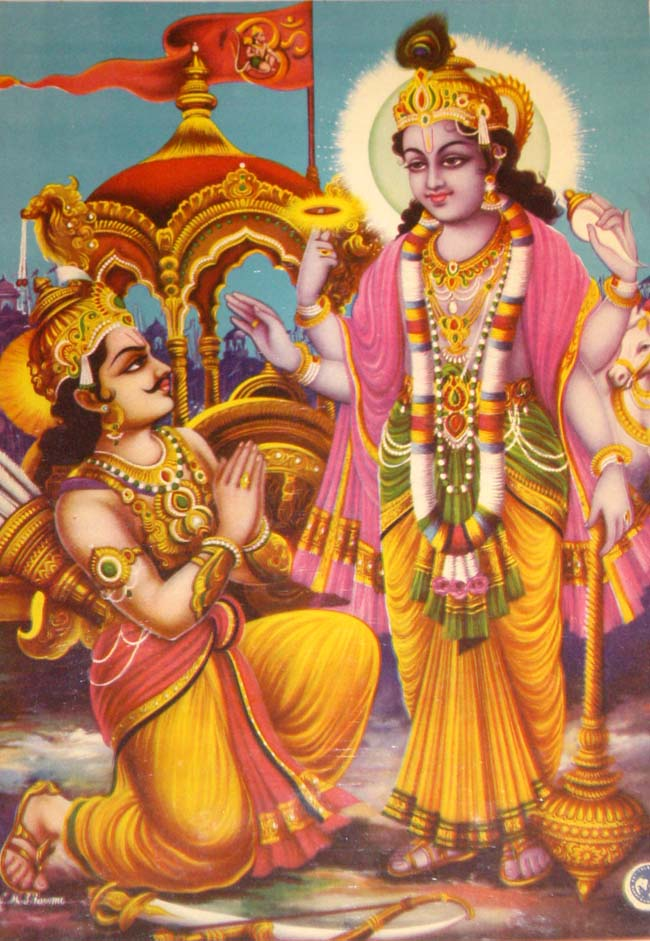 Bazaar art print, c.1940's Source: ebay, May 2005